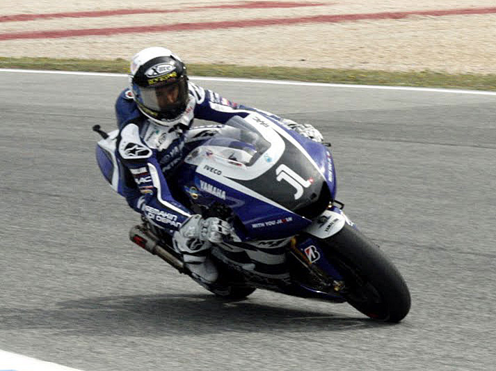 Jorge Lorenzo 2011 Estoril